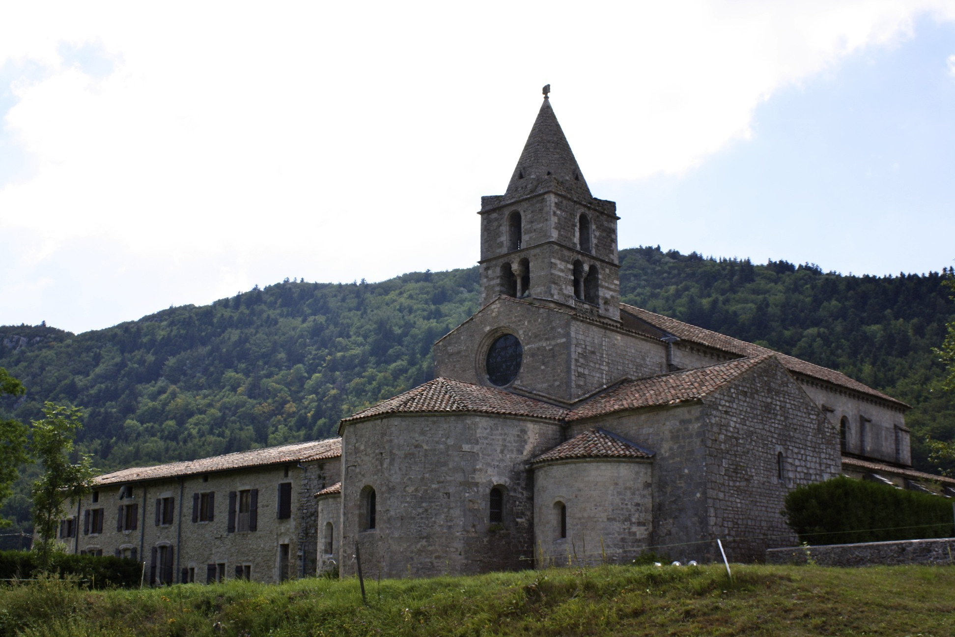 Leoncel's abbey as seen from the North-East.